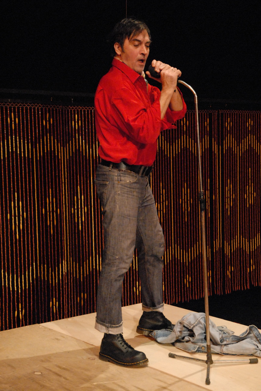 "Love Griefs of Woody Allen" written and directed by Branko Dimitrijević, Drama of the SNT, Novi Sad, 2009/10; Predrag Momčilović Srpski (latinica): "Ljubavni jadi Vudija Alena", napisao i režirao Branko Dimitrijević; Drama SNP-a, Novi Sad, 2009/10; Predrag Momčilović Српски (ћирилица): "Љубавни јади Вудија Алена", написао и режирао Бранко Димитријевић; Драма СНП-а, Нови Сад, 2009/10; Предраг Момчиловић